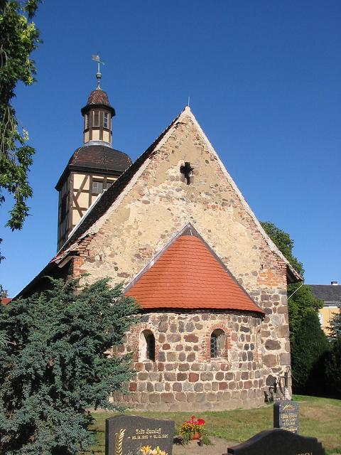 Rare apsis hall stone church Neschholz, built in 13th century. The village Neschholz is an incorporated part of the town Belzig in the district Potsdam Mittelmark, state Brandenburg, Germany. Belzig appertains to the natural preserve Naturpark Hoher Fläming.